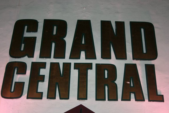 Grand Central Pub Sign